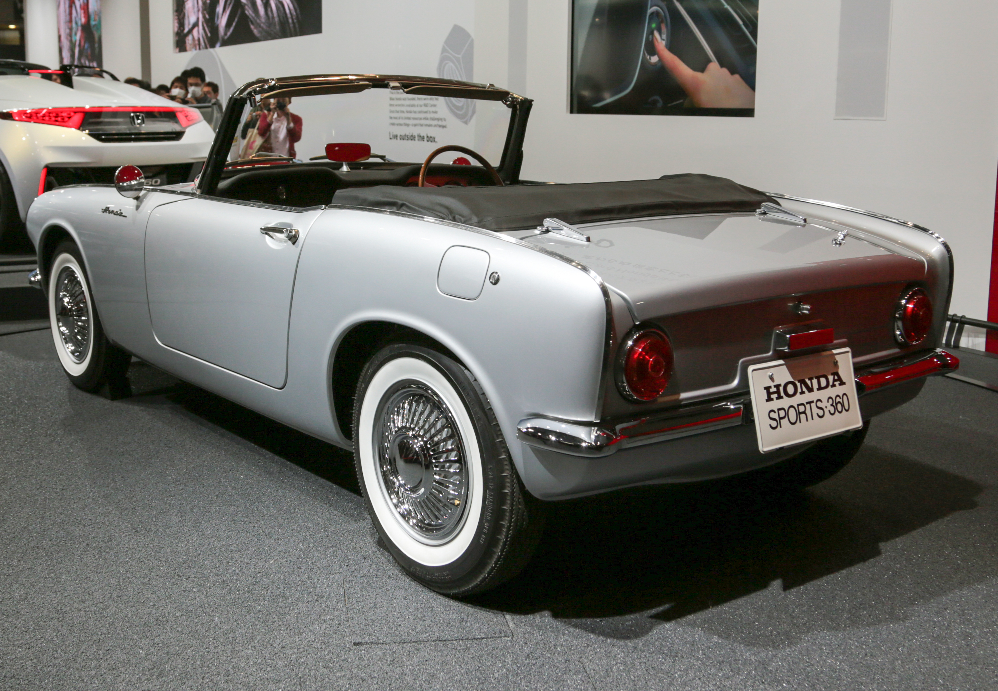 Honda Sports 360 prototype displayed at the 43rd Tokyo Motor Show, 2013. It was there to promote the Honda S660 concept car.